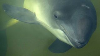 Harbor Porpoise (Phocoena phocoena, male) close up.